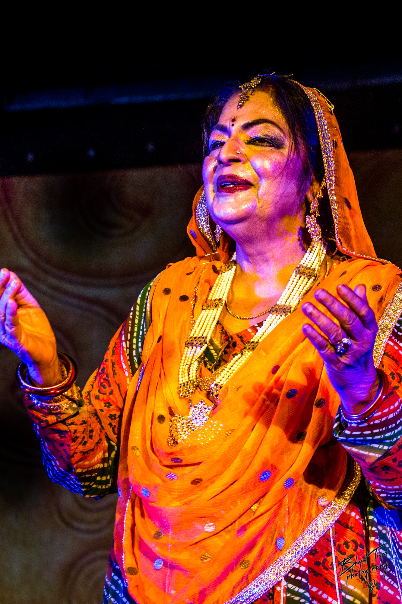 Kathak Dancer Uma Sharma